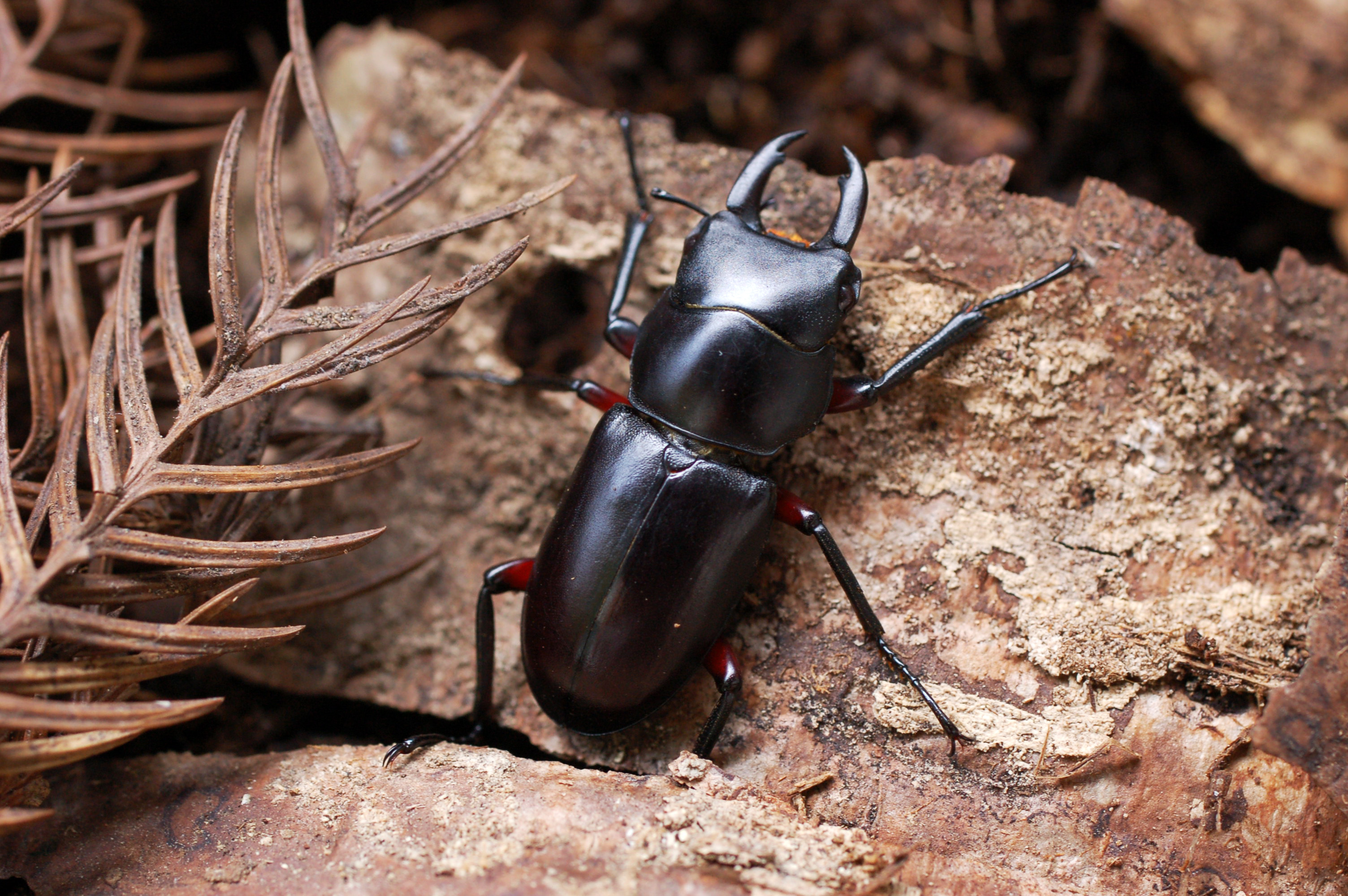 Dorcus rubrofemoratus